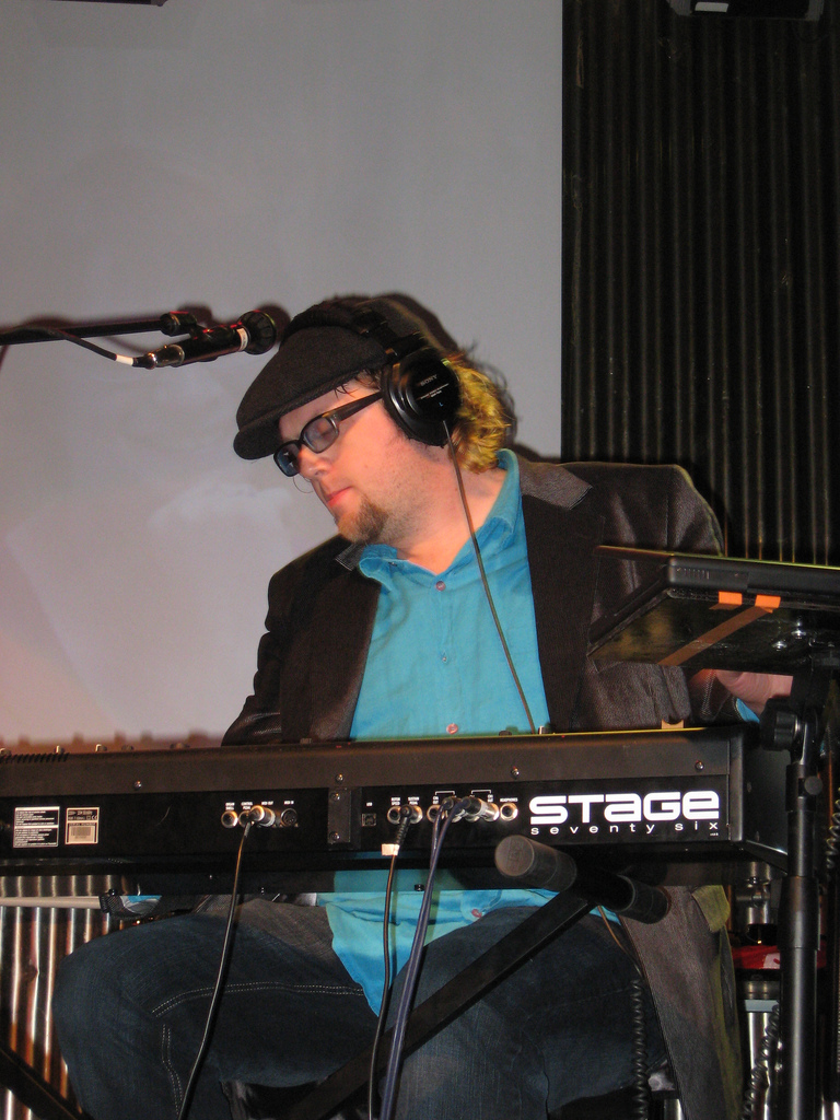 Reyn Ouwehand performing at Back in Time Live 2008.